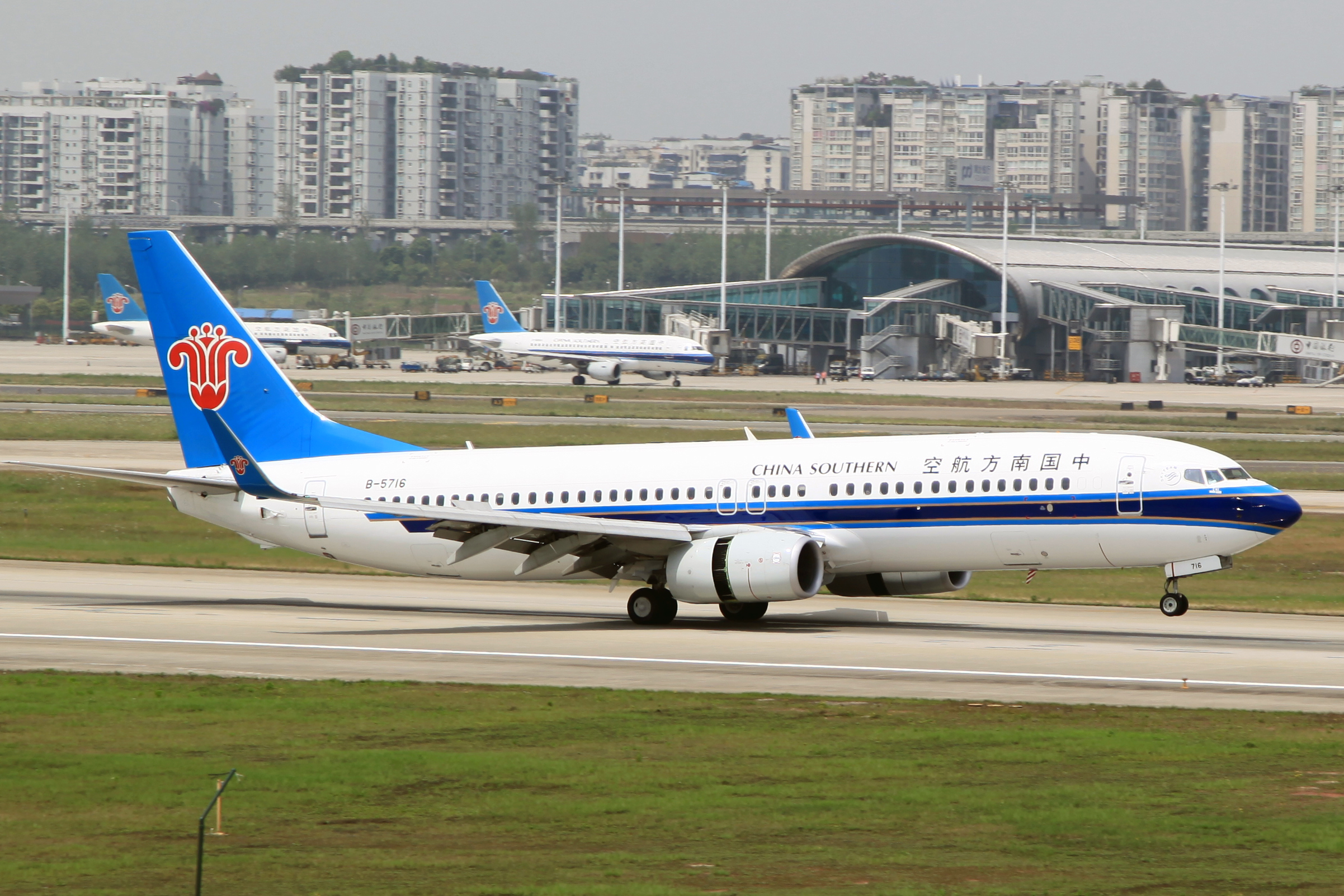 China Southern Airlines Boeing 737-81B(WL) B-5716 @ Chongqing Jiangbei International Airport